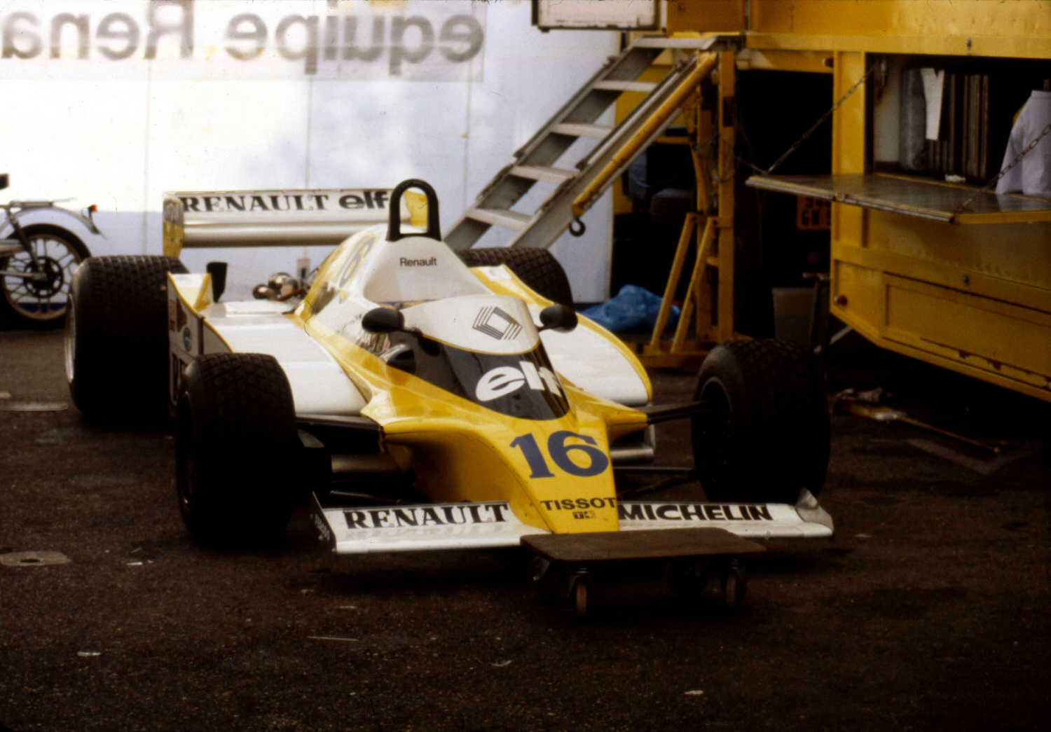 Renault F1 RS10 at Monaco GP 1979. The #16 of this year was René Arnoux.